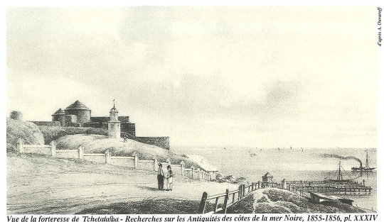 Stronghold of Cetatea Albă/Akkerman/Belgorod since A. Uvaroff, 1856.